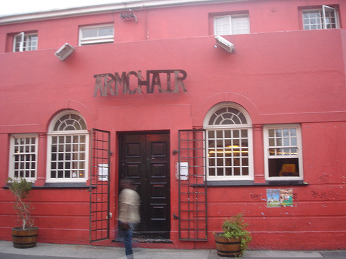 The Independent Armchair Theatre, Lower Main Road, Observatory, Cape Town